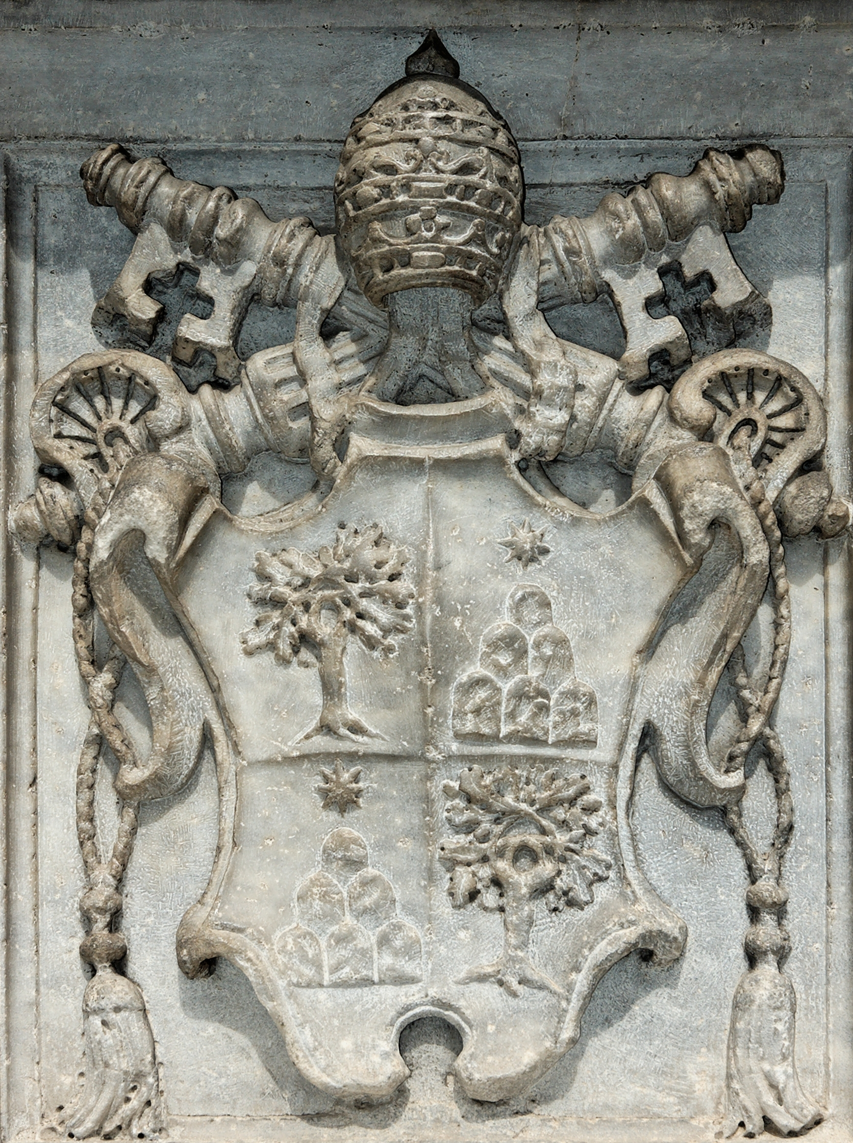 Coat of arms of Pope Alexander VII (Chigi) on the base of the so-called “Minerva's chick”, piazza della Minerva, Rome.